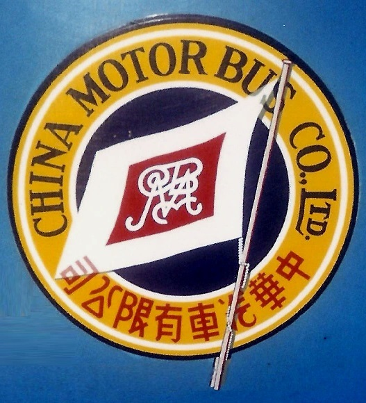 The logo of China Motor Bus (CMB) taken from a bus shortly before CMB lost its franchise in 1998.